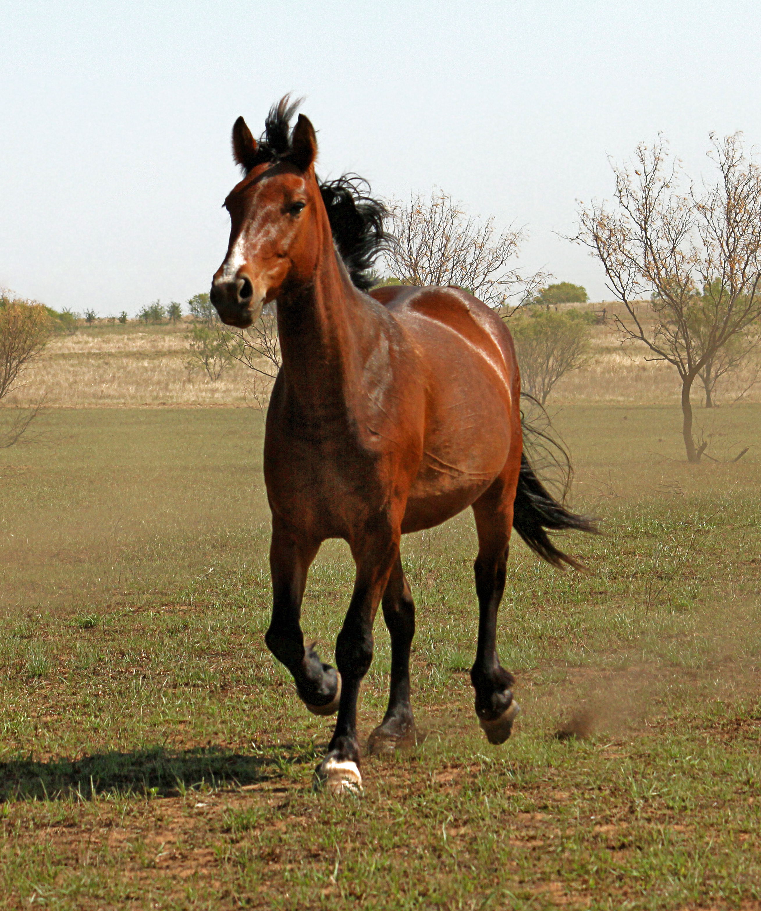 Blood bay bucking horse enjoying pasture time taking a break from the rodeo circuit